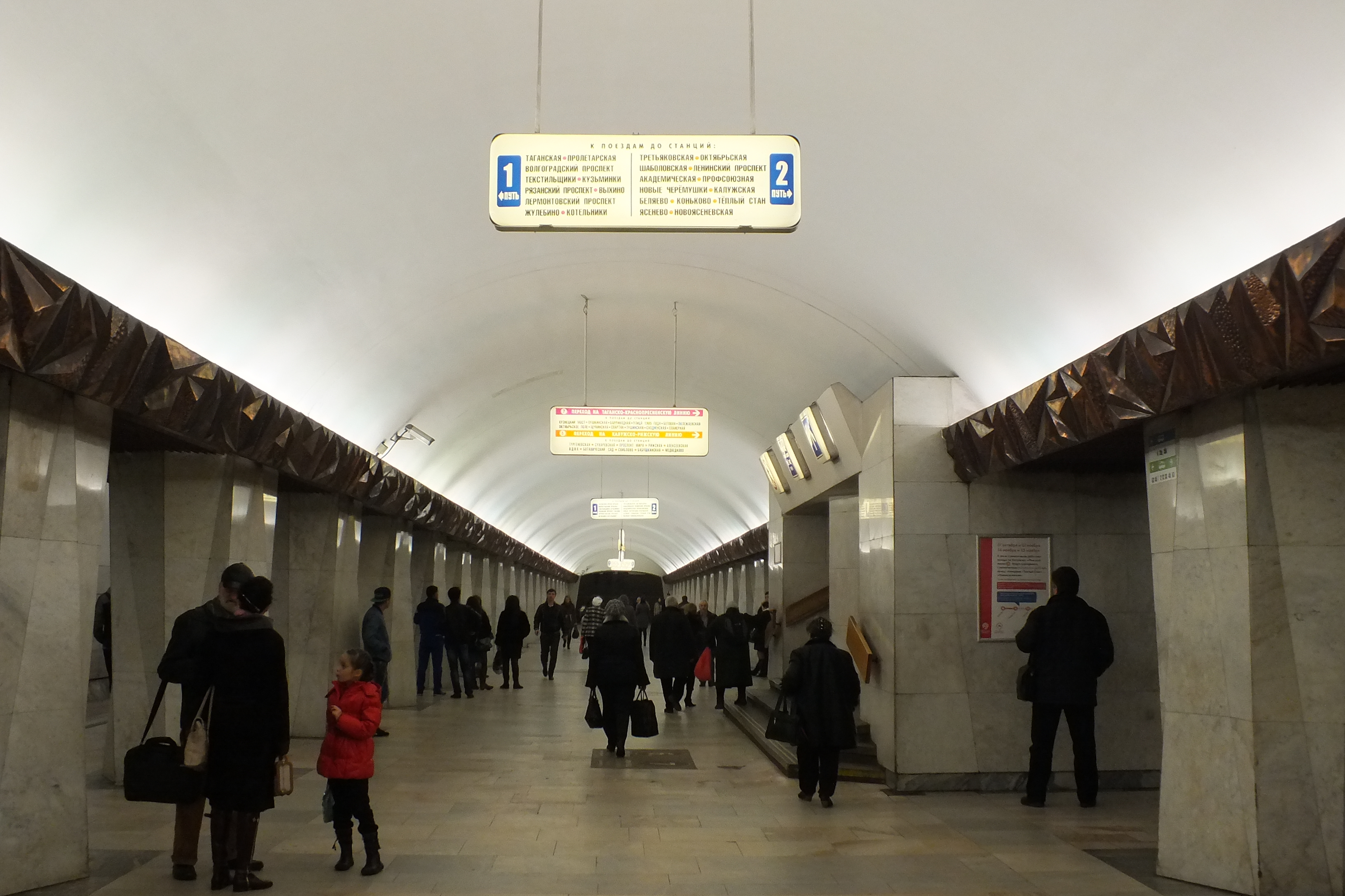 Kitay-gorod station, south-eastern direction's hall, interchange signs